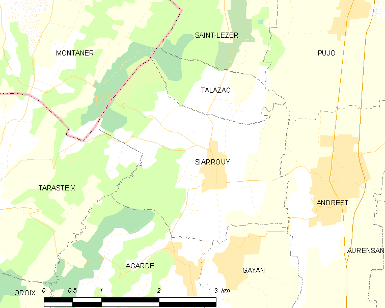 Map of French municipality